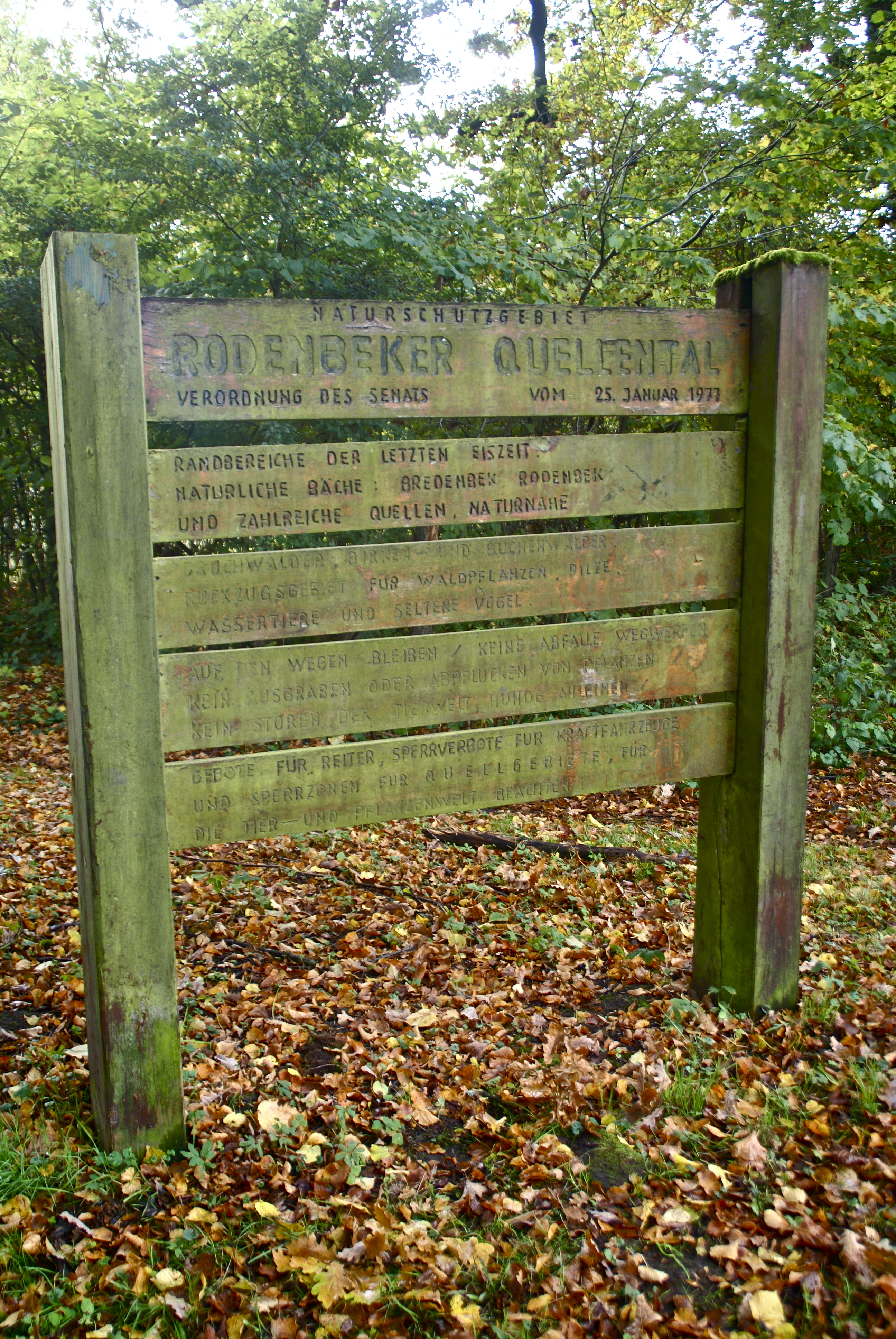 Hamburg (Ohlstedt), Germany: Information sign in the natural reserve Rodenbeker Quellental